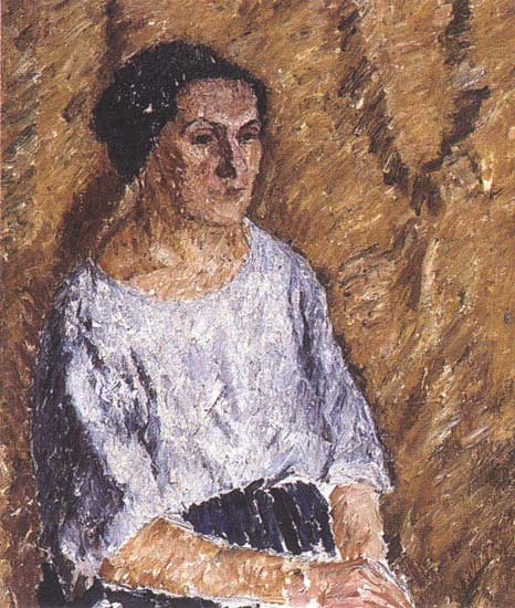 Russian painter Nadezhda Udaltsova portrayed by her husband A. Drevin. Russian Museum: 8836